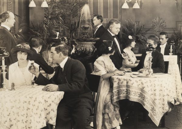 Lorna Barton (played by Ethel Grandin) is tempted by the procurer Bill Bradshaw (William Cavanaugh) in a cafe scene from the silent drama Traffic in Souls (1913).